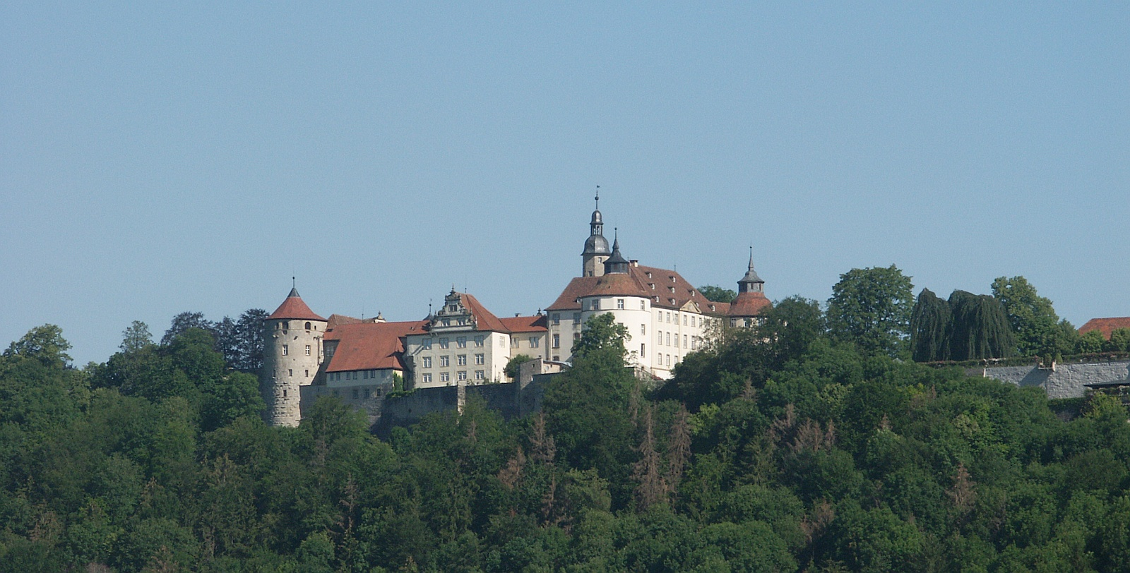 Castle Langenburg, district Schwäbisch Hall, Germany